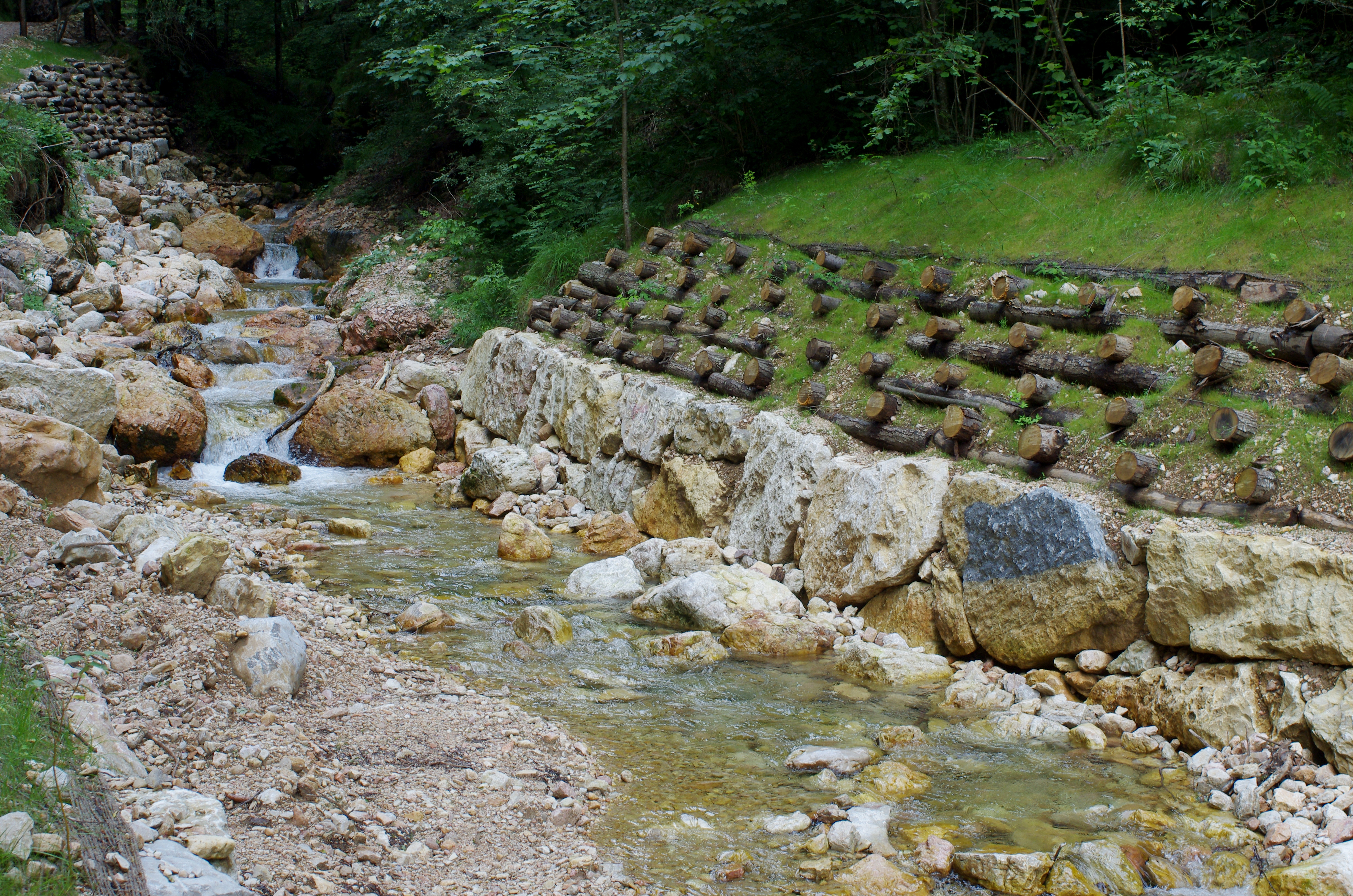 2014 07 Selva di Progno (VR) Italy - Giazza - Val Fraselle - ravin - Ctg Baldo Lessinia org photo Paolo Villa FOTO6792bis